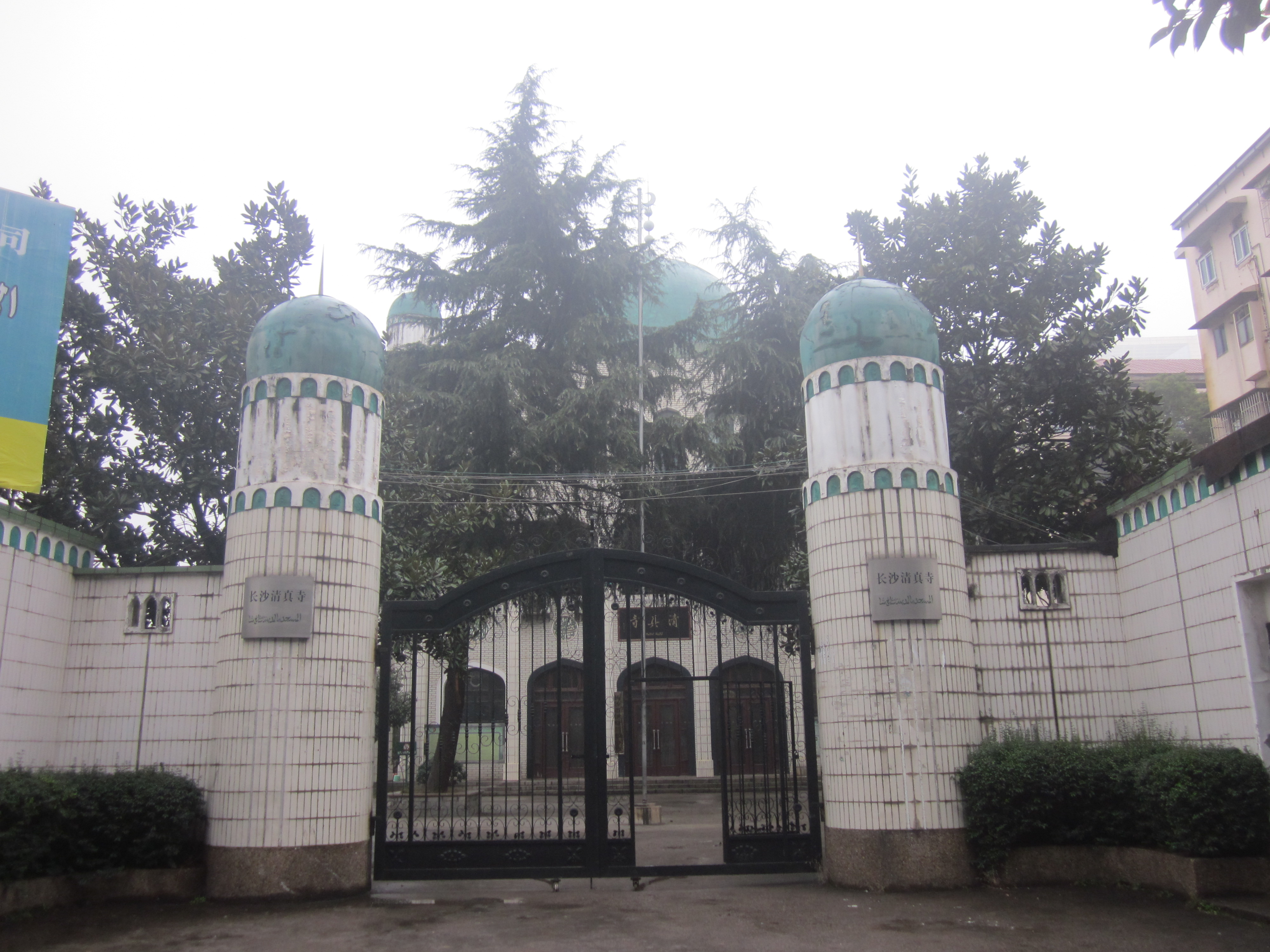 Entrance of the Changsha Mosque.